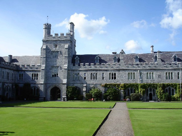 University College Cork. This is the main Quad in UCC. University College Cork was originally established in 1845 as one of three Queen's Colleges in Cork, Galway and Belfast.